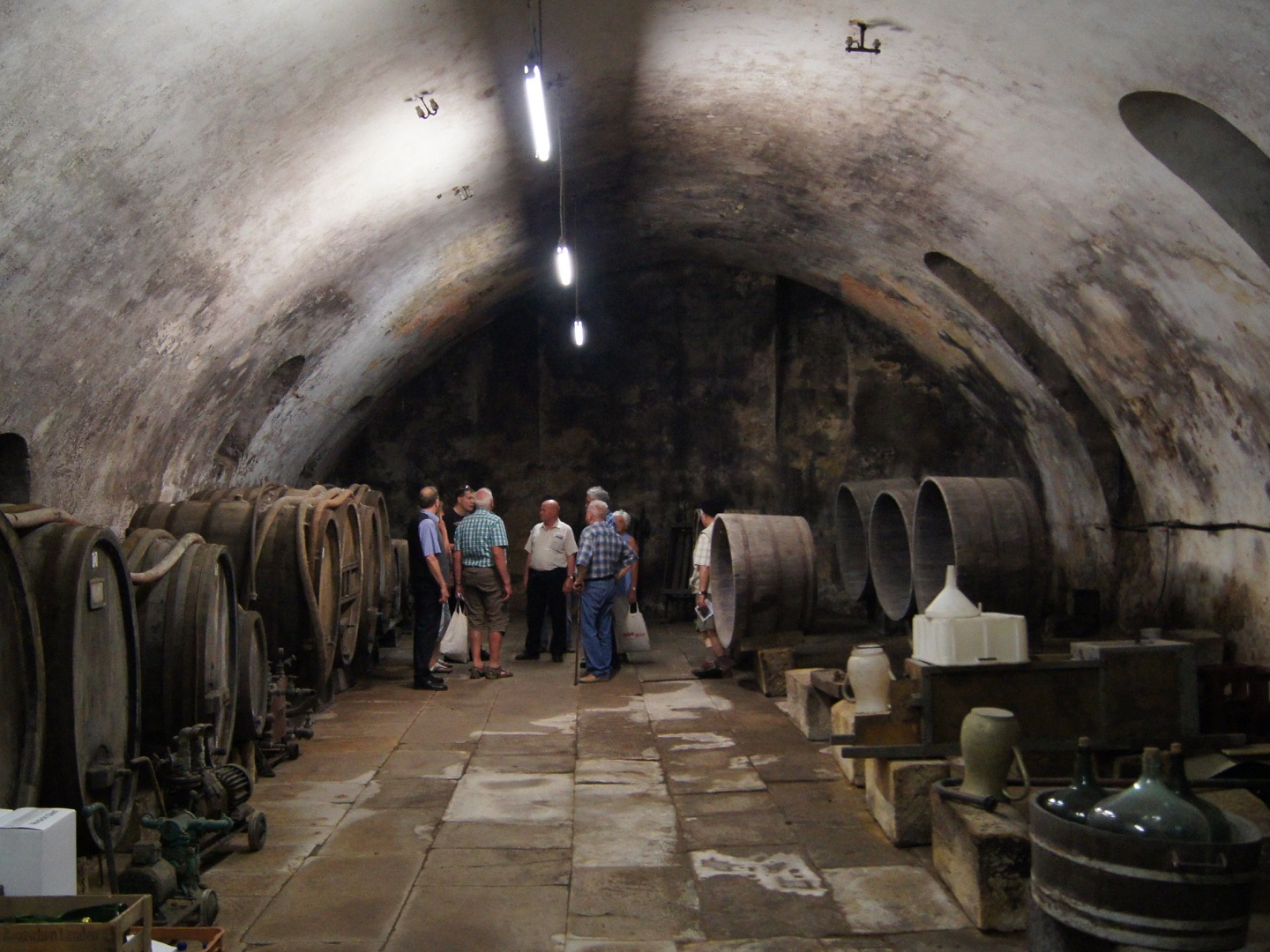 Herxheim am Berg, Pfaffenhof 5/7, wine cellar, 18th century